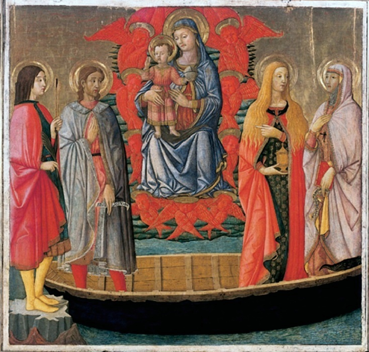 Madonna and Child and Saints